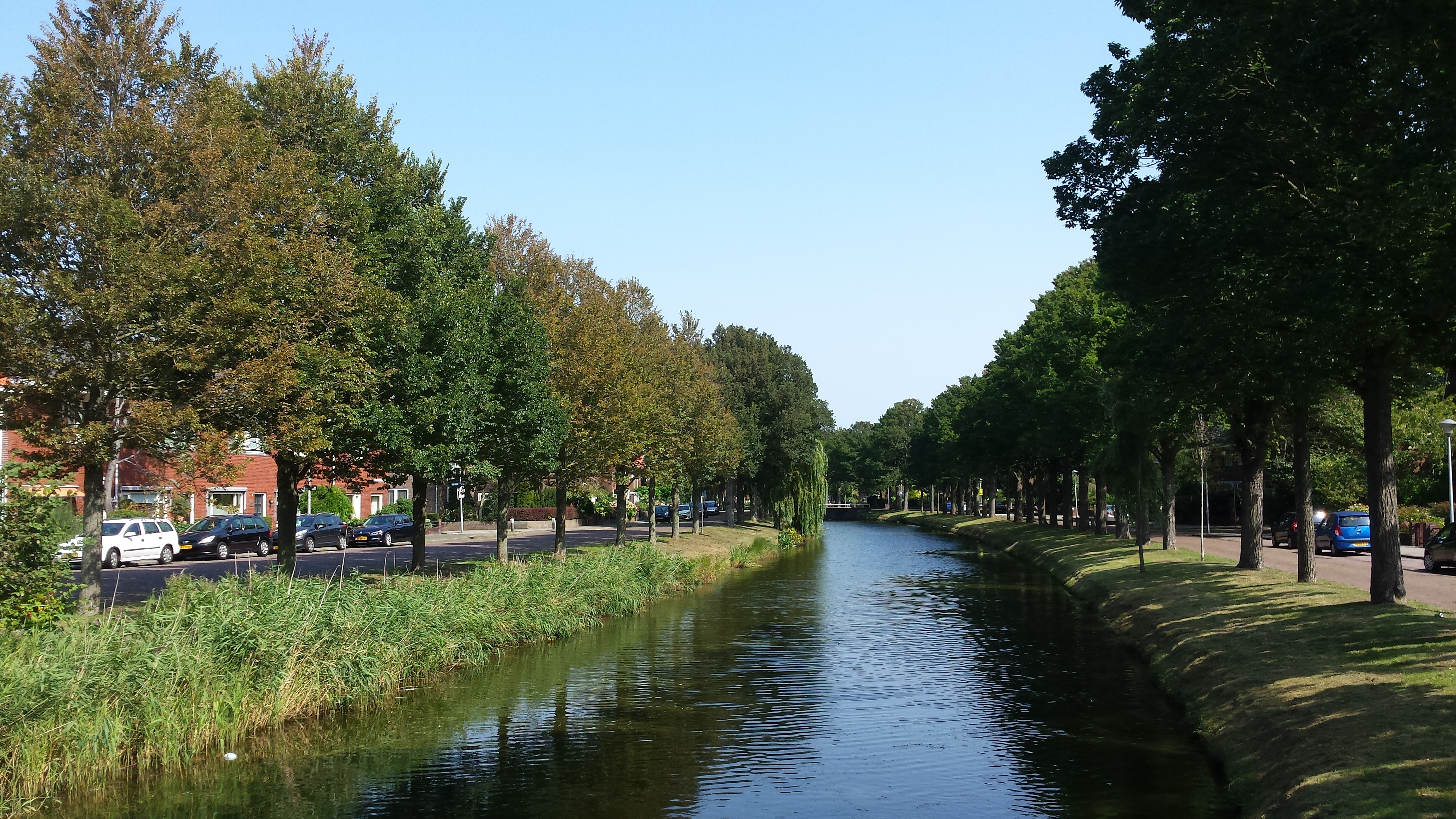 Water in Den Helder